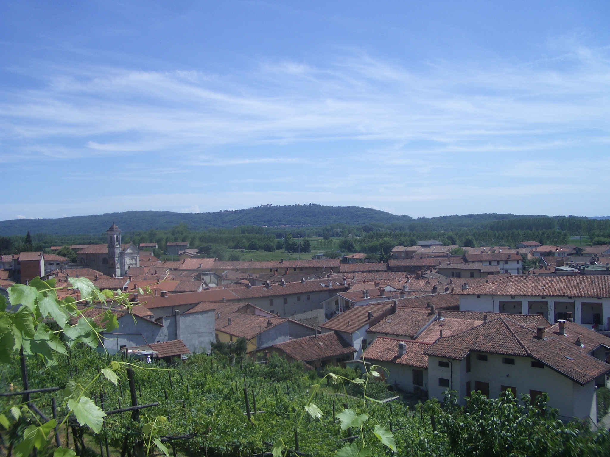 Albiano d'Ivrea, landscape (view from the Bishop's Castle)